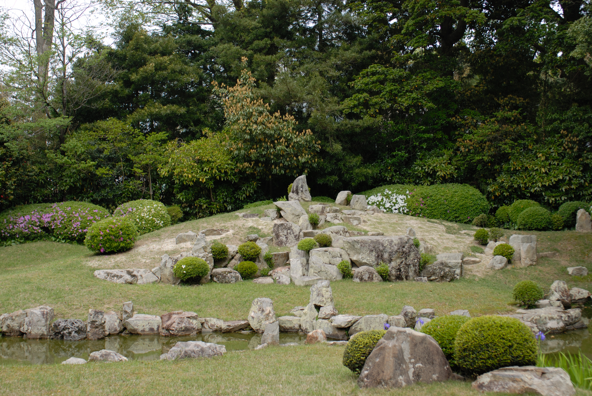 Mampukuji Garden, Masuda city, Shimane prefecture, Japan